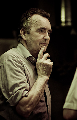 Günther Hawelka in Café Leopold Hawelka, Vienna